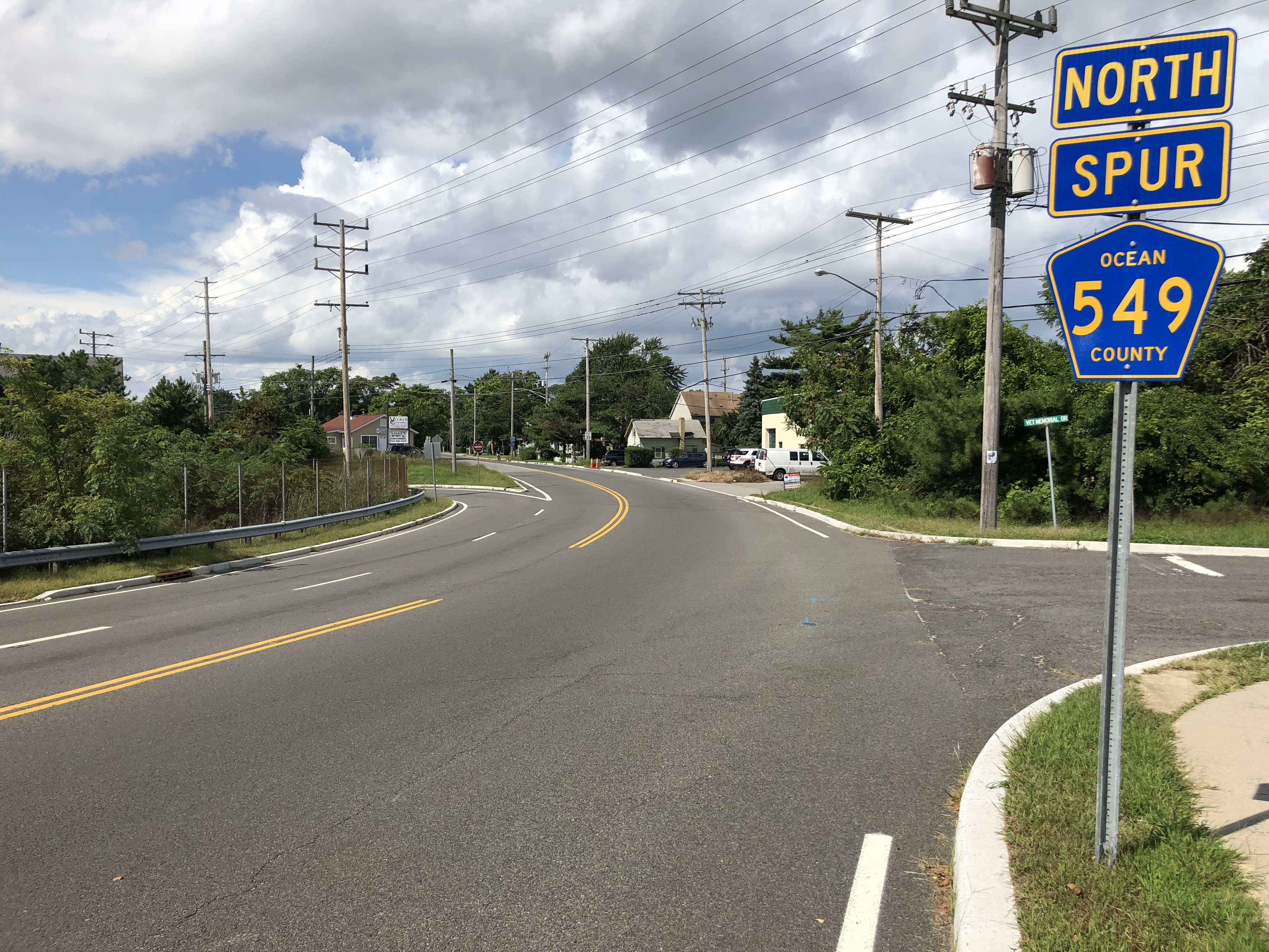 View north along Ocean County Route 549 Spur (Herbertsville Road) just north of New Jersey State Route 88 (Ocean Road) in Point Pleasant, Ocean County, New Jersey